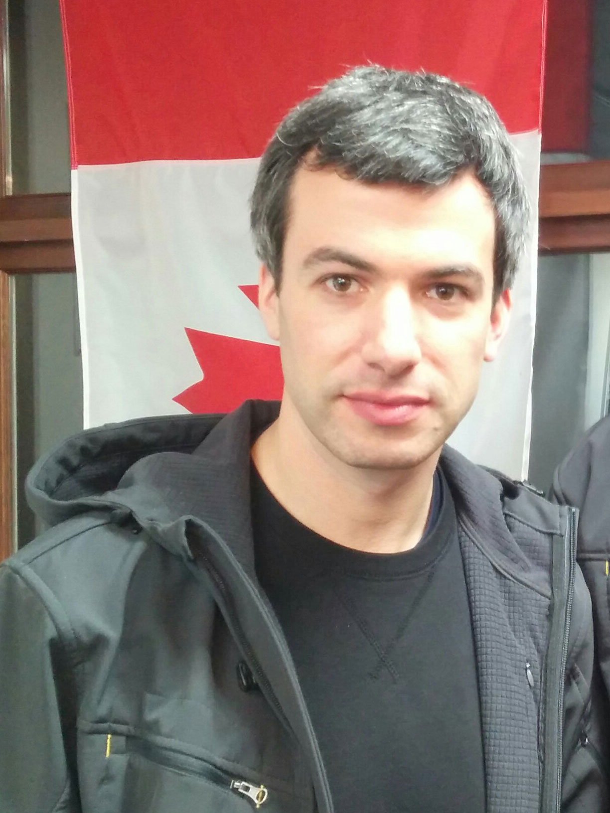 Nathan Fielder at the Summit Ice pop-up store in Vancouver, British Columbia on 26 March 2017.